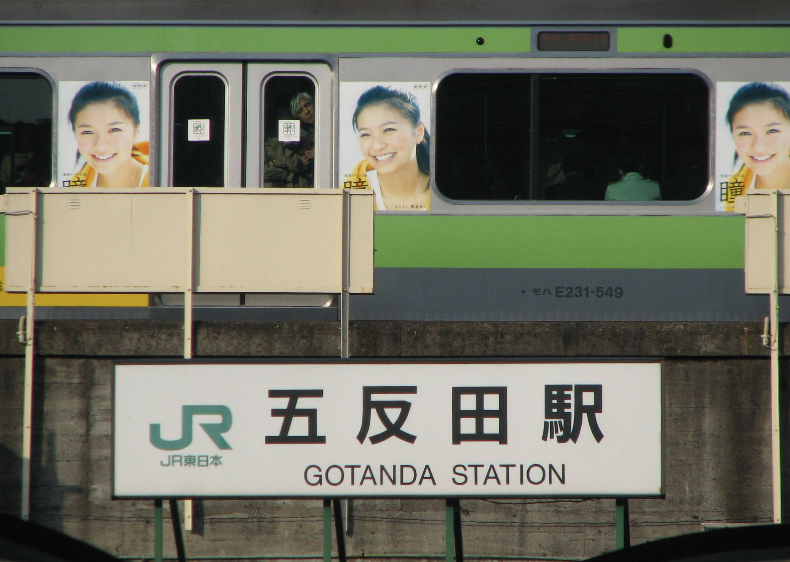 Gotanda station, Shinagawa ward, Tokyo, Japan